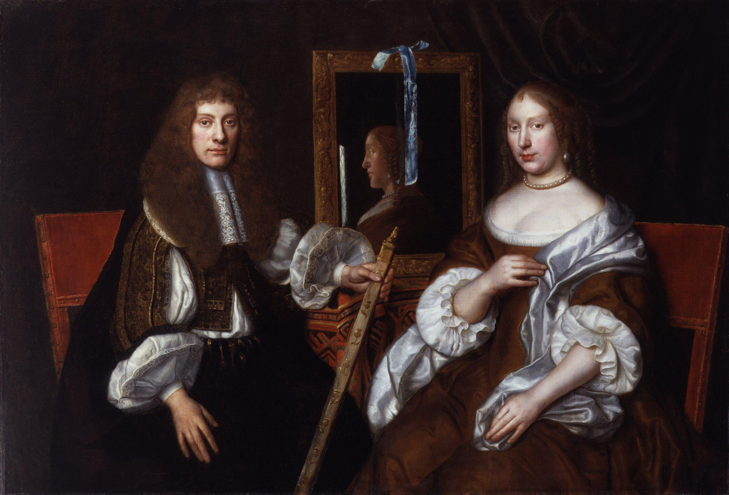 Archibald Campbell, 9th Earl of Argyll; Countess of Argyll, by unknown artist. All images in this batch are listed as "unknown author" by the NPG, who is diligent in researching authors, and was donated to the NPG before 1939 according to their website.